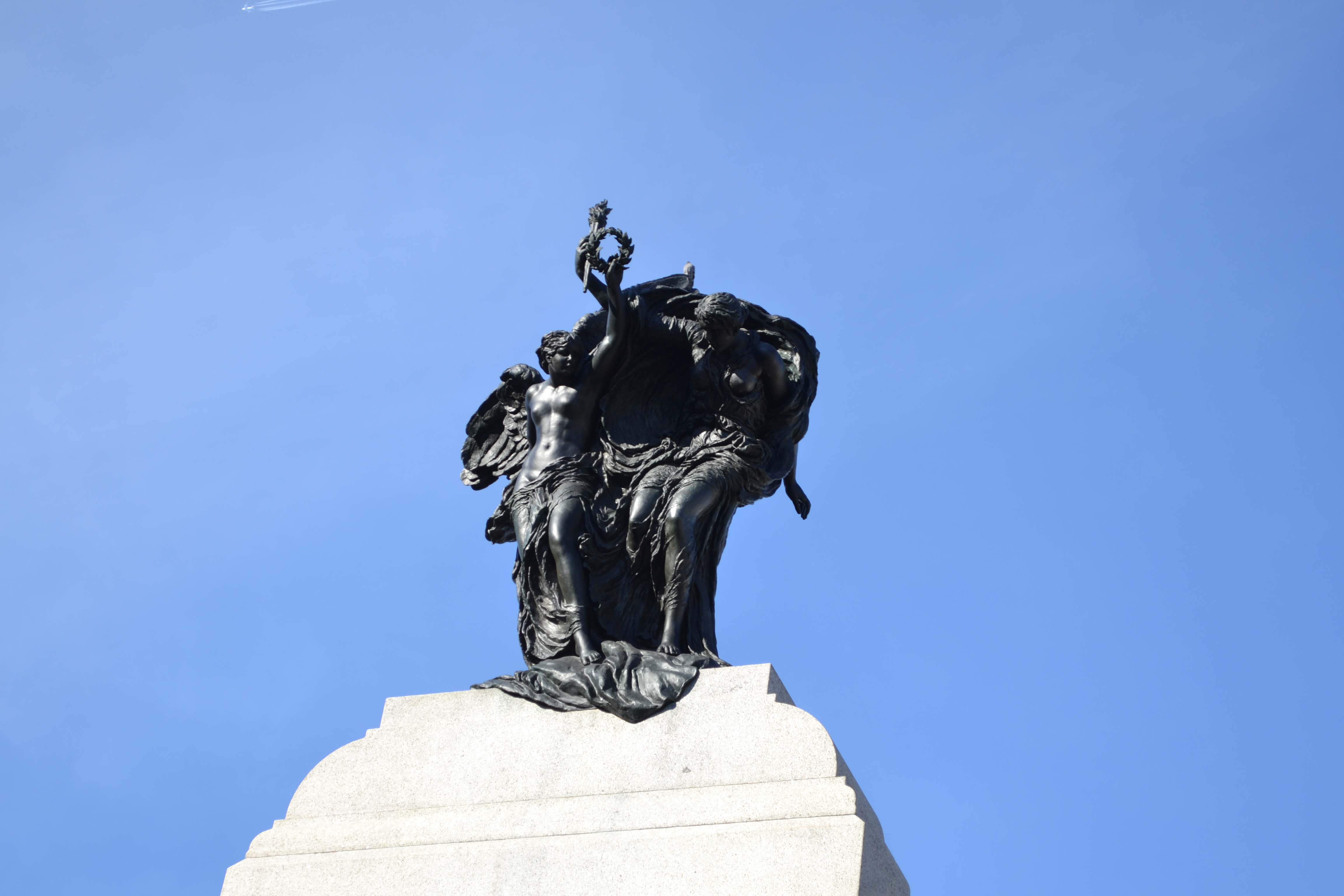 Remembrance Day 2017 in Ottawa, Canada